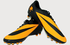 Nike Hypervenom Phelon first released in May 2013